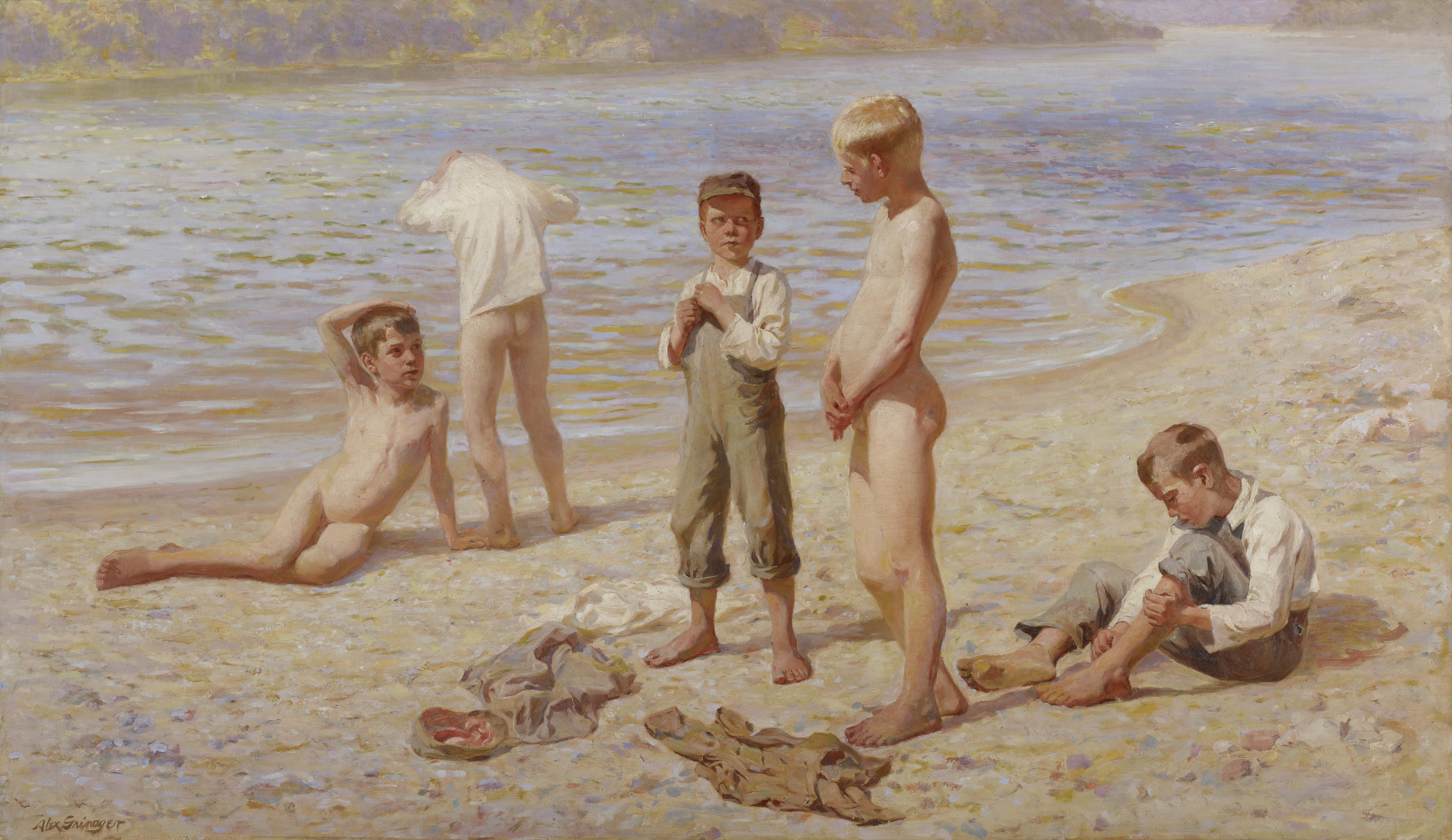 Genre scene of boys bathing at a beach.